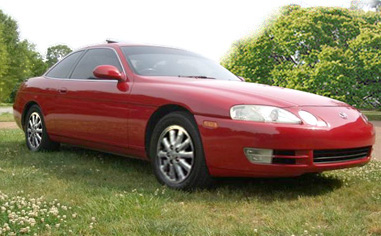 This is an image similar to the original 1991 stock photo originally used by Lexus dealerships and in brochures.